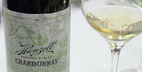 California Chardonnay from California wine producer Hanzell in Sonoma